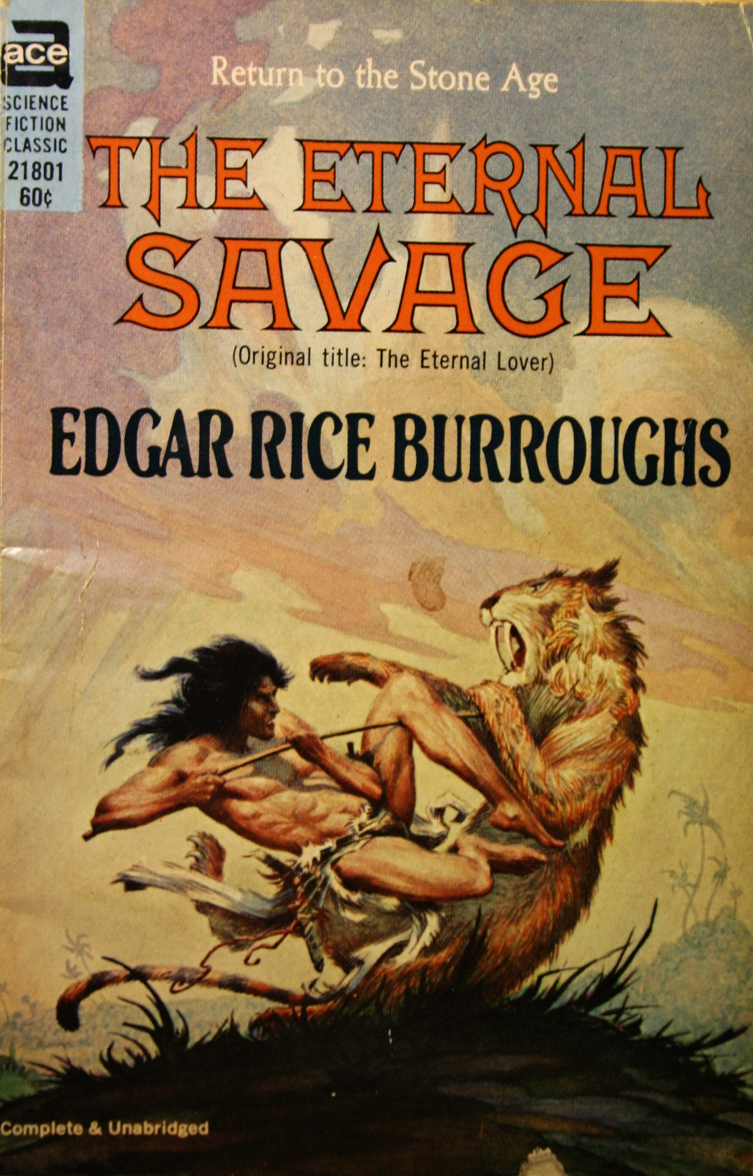 This is an image of the cover to Edgar Rice Burroughs pulp fiction novel, 'The Eternal Savage'. Published in 1914. The actual ACE Books edition, which is pictured was published in 1963. The cover artist was Roy G Krenkel. According to Krenkel's wiki-article, as well as paleoblog Krenkel worked as an illustrator for Burrough's novels quite often. Because the artwork and book were obviously puplished PRIOR to 1964, and there are no records of copyright renewal pertaining to Krenkel or Burroughs for this work, I am marking as PD-US-not-renewed...